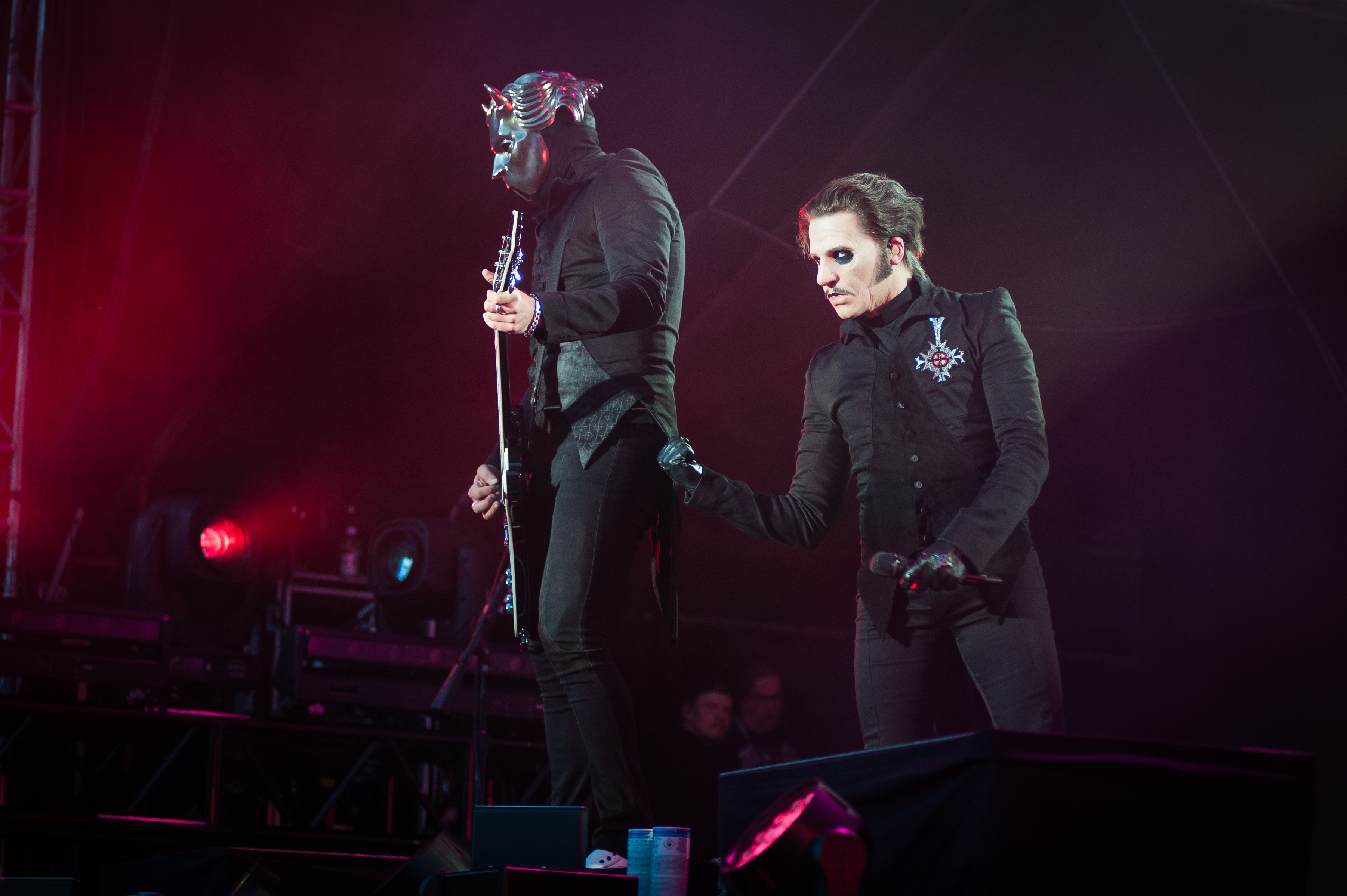 Swedish rock band Ghost performing at the 2018 South Park festival in Tampere, Finland.